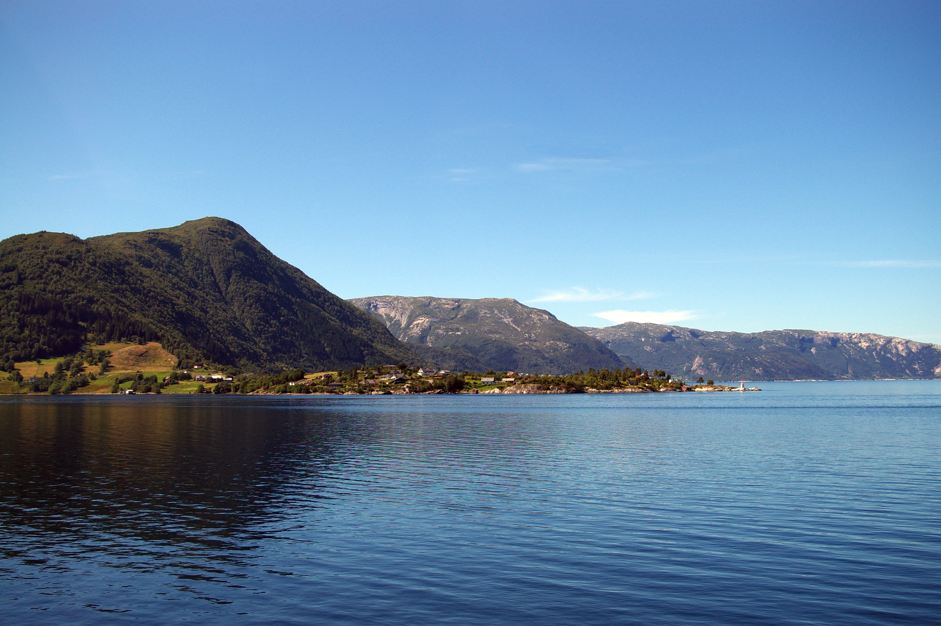 Risnefjorden seen towards Brekke in Gulen, Norway.